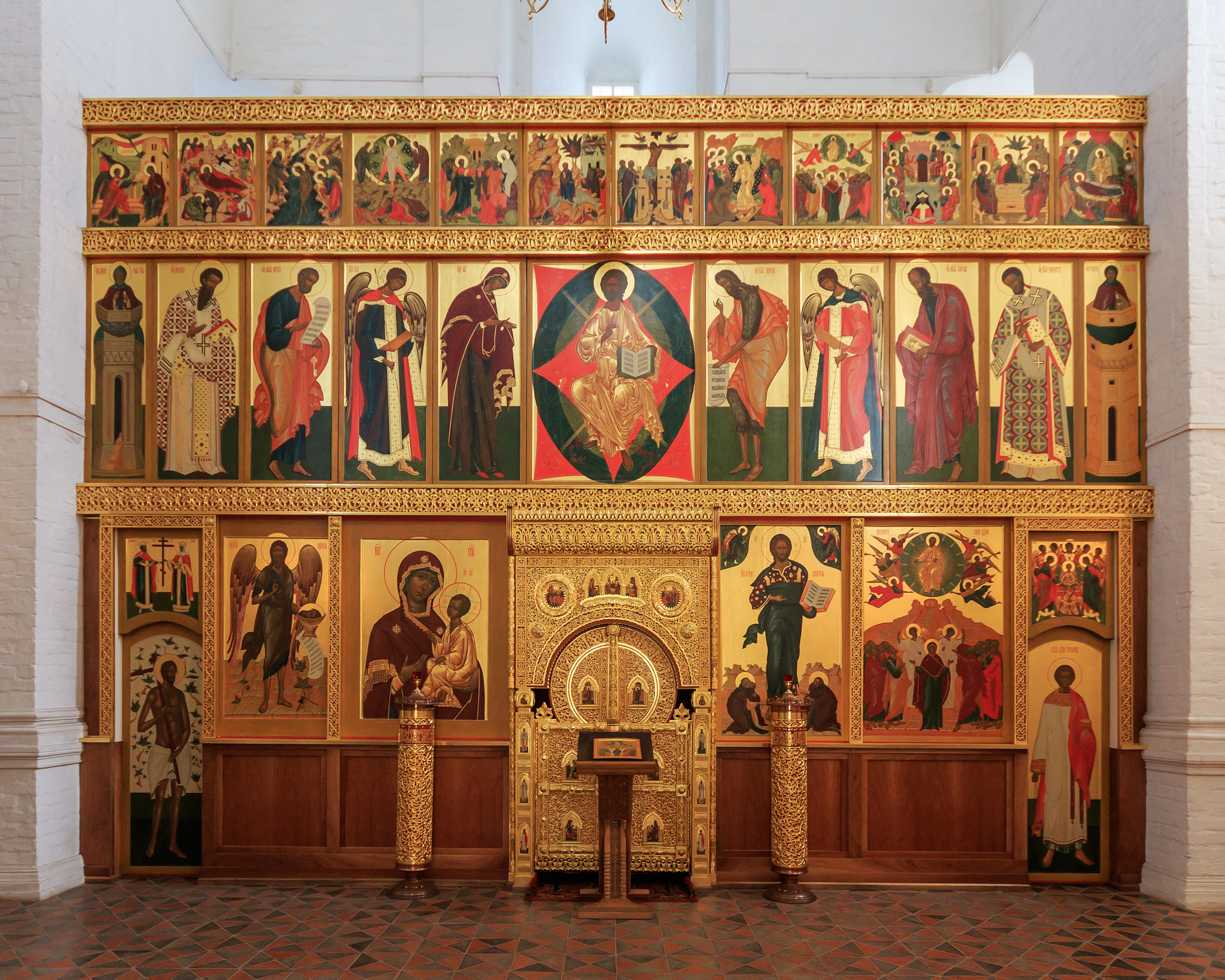 Interiors of the Ascension Church in Kolomenskoe Park. Moscow, Russia.